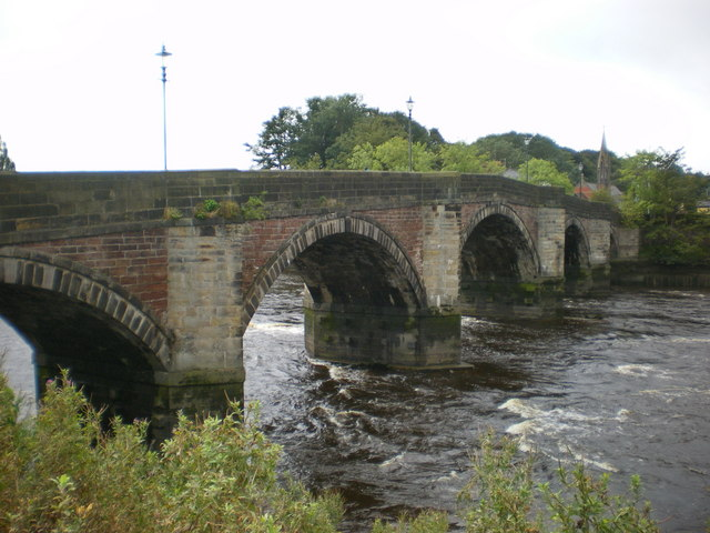 Penwortham Bridge Built in 1759, this bridge was built to carry the traffic from Preston to Leyland, Liverpool and Southport.